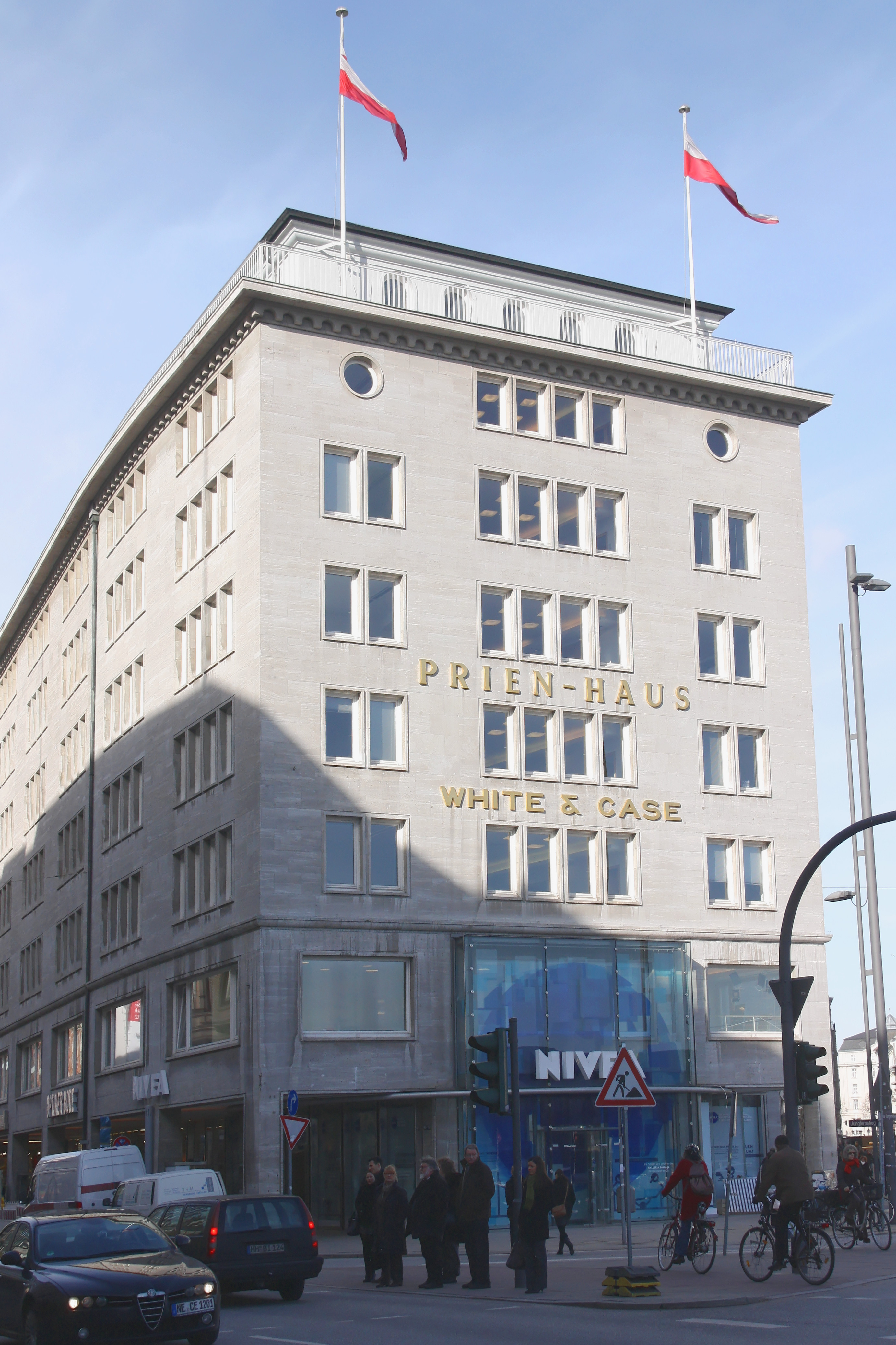 Hamburg, Office building near the Lake Alster This is a photograph of an architectural monument.